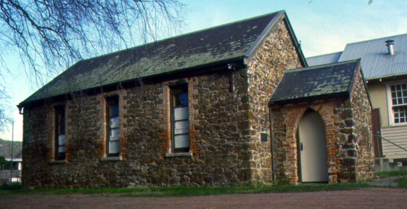 St Mark's Church, East Brighton